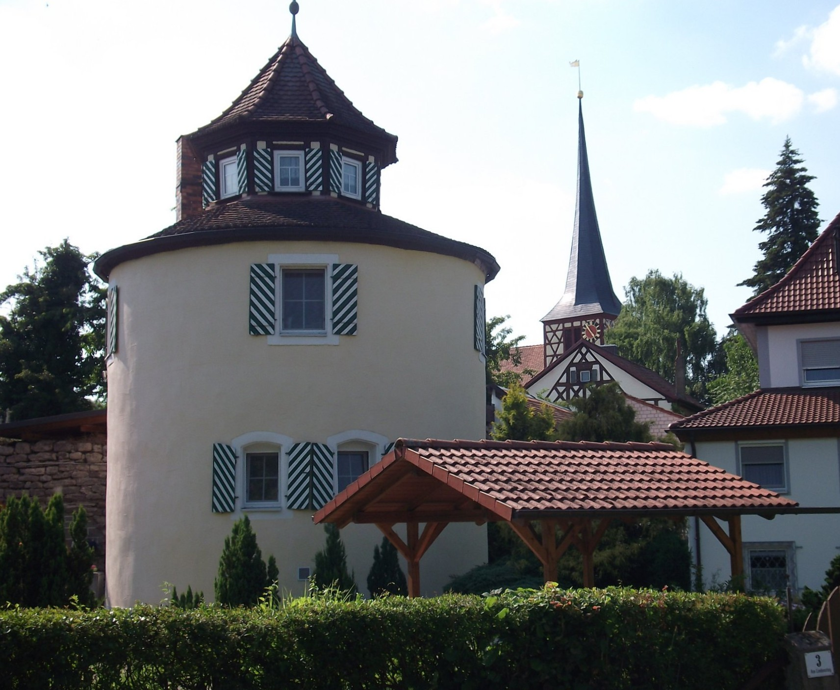 round tower of the former fortifications